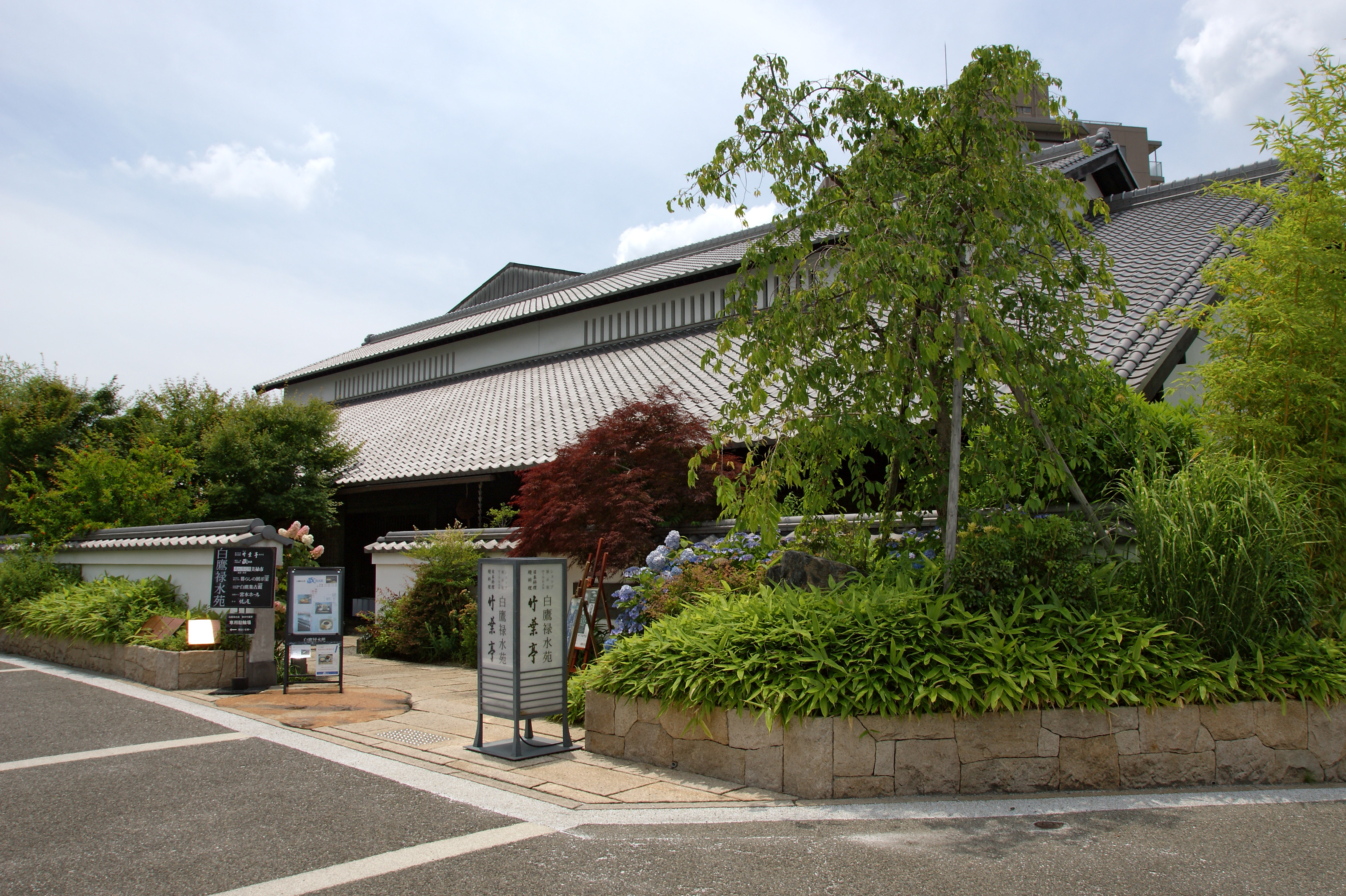 Hakutaka-ryokusuien in Nishinomiya, Hyogo prefecture, Japan